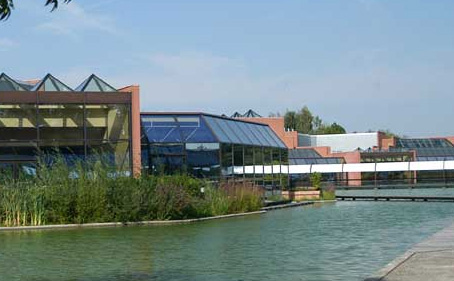 ITIN